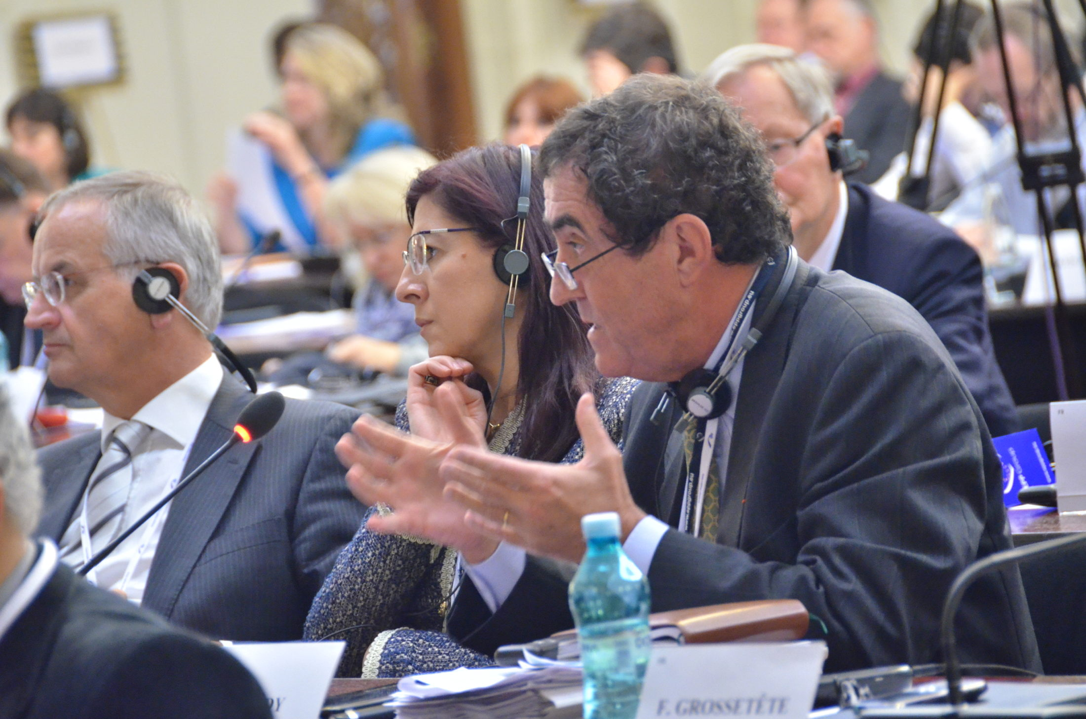 EPP_Congress_1553